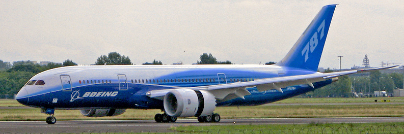 Boeing 787 Dreamliner aircraft at Warsaw Airport